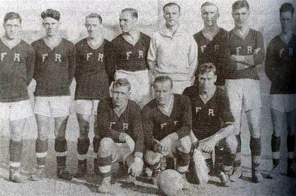 American association football team Fall River Marksmen in 1921.